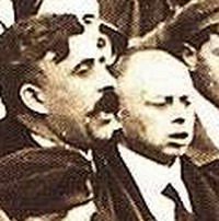 Sandor Garbai and Bela Kun, leaders of the Hungarian Soviet Republic, 1919